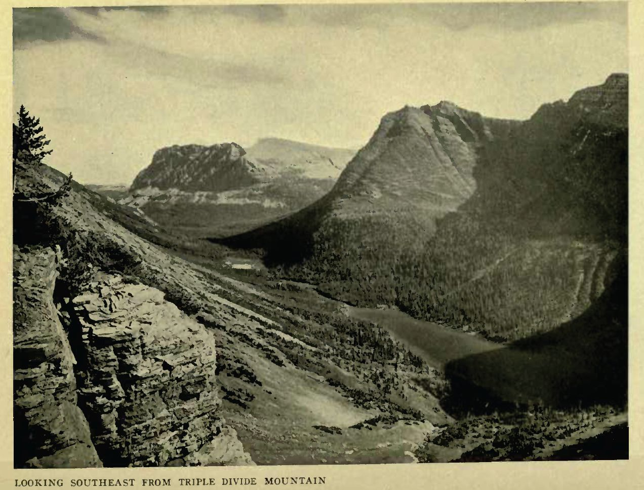 Looking southeast from Triple Divide Mountain, Glacier National Park, 1917